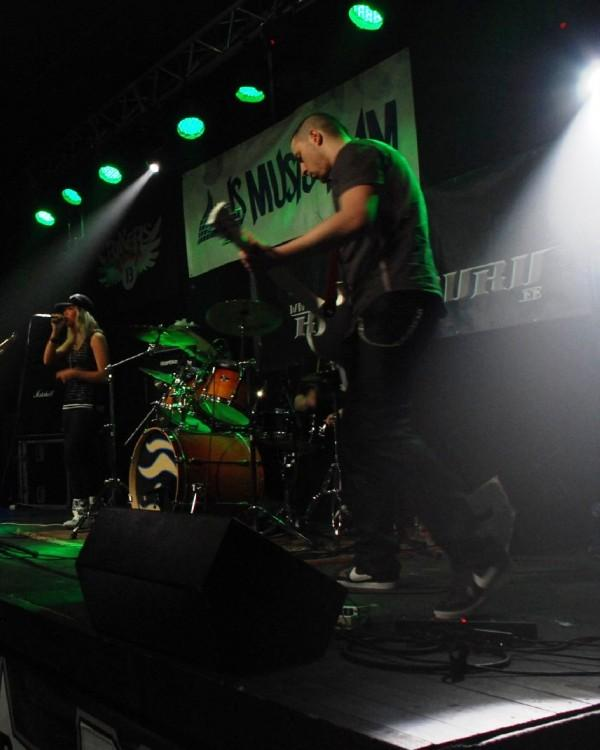 Bitterdoll live at Girls in Rock in Tallin, Estonia.